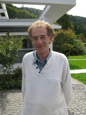 Mathematician Leonid Polterovich at the workshop "Geometric Group Theory, Hyperbolic Dynamics and Symplectic Geometry" in Oberwolfach, 2008.